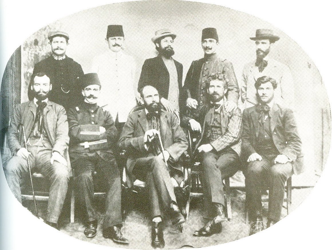 Sandanski, Hadjidimov, Panitza with Young Turks